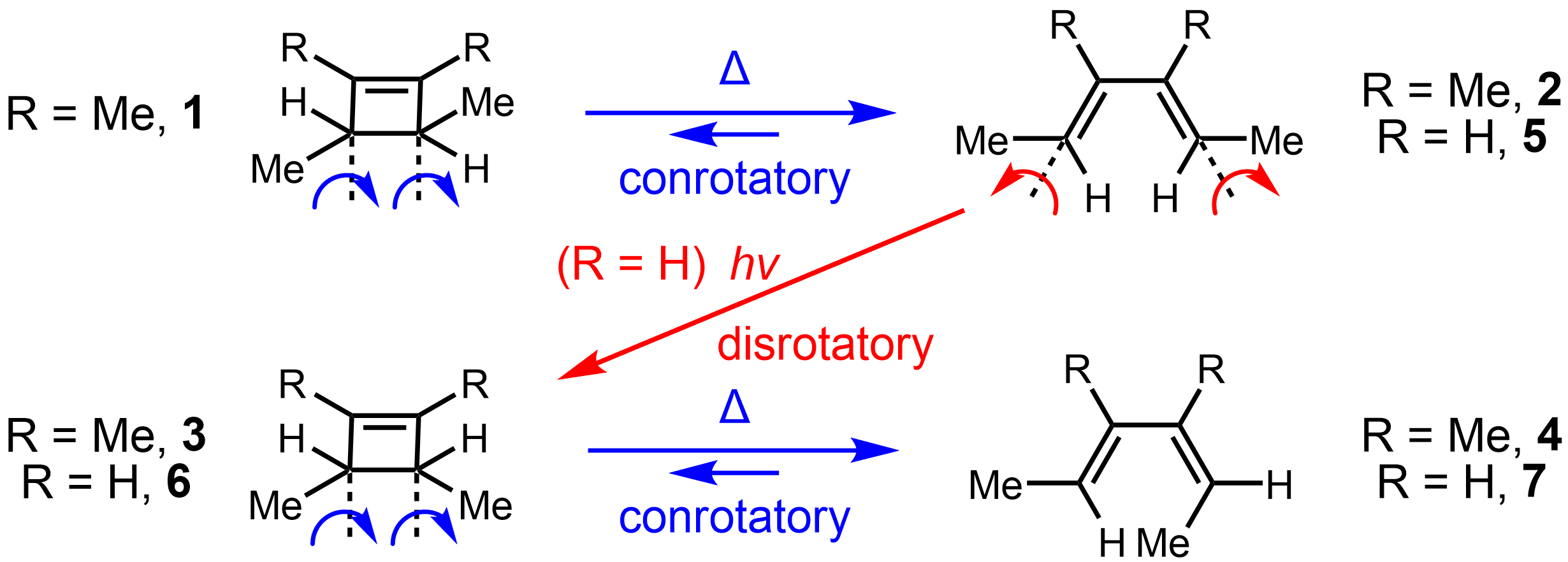 Interconversion of cyclobutenes and butadienes